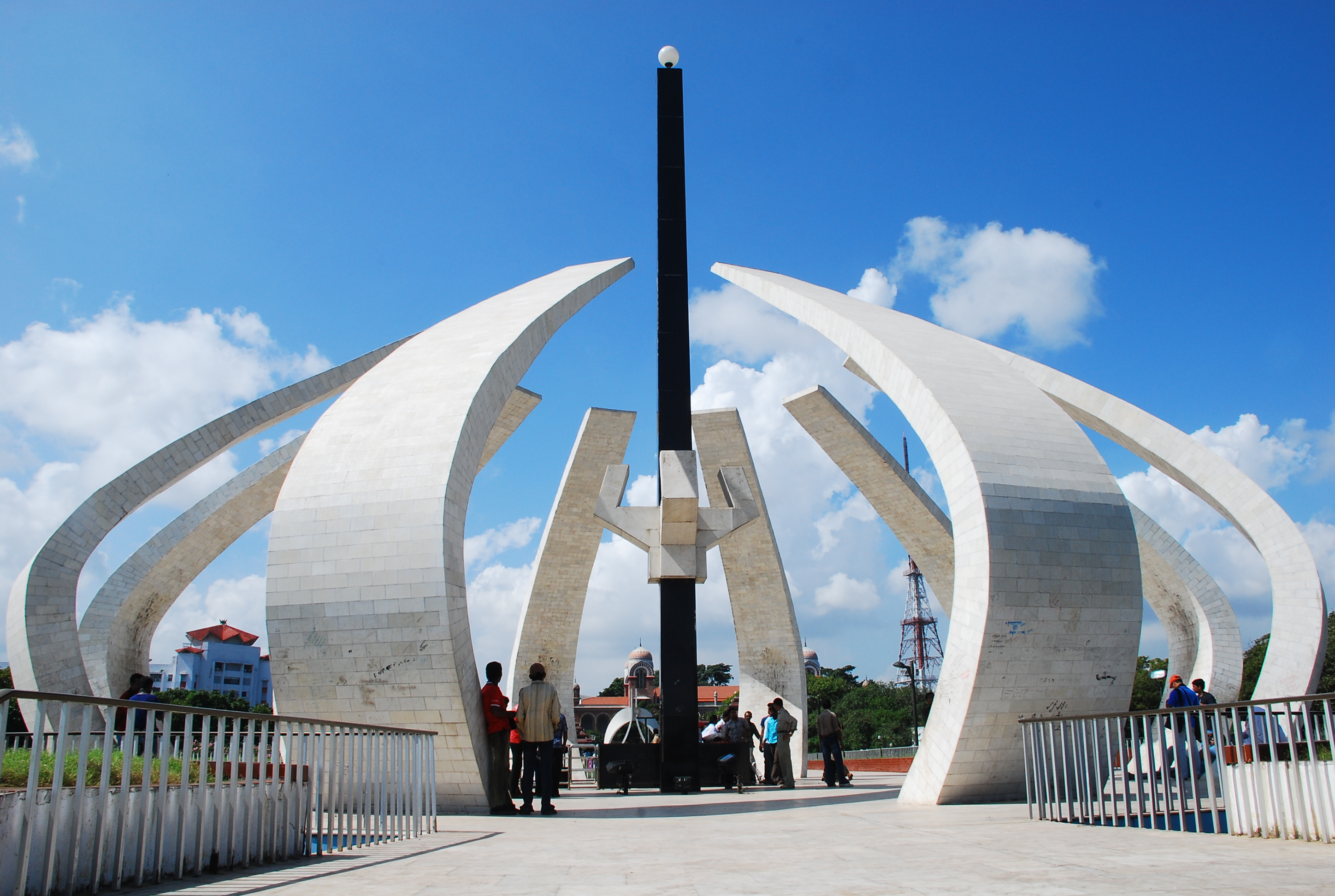 MGR Memorial - The Second Chennai Photowalk